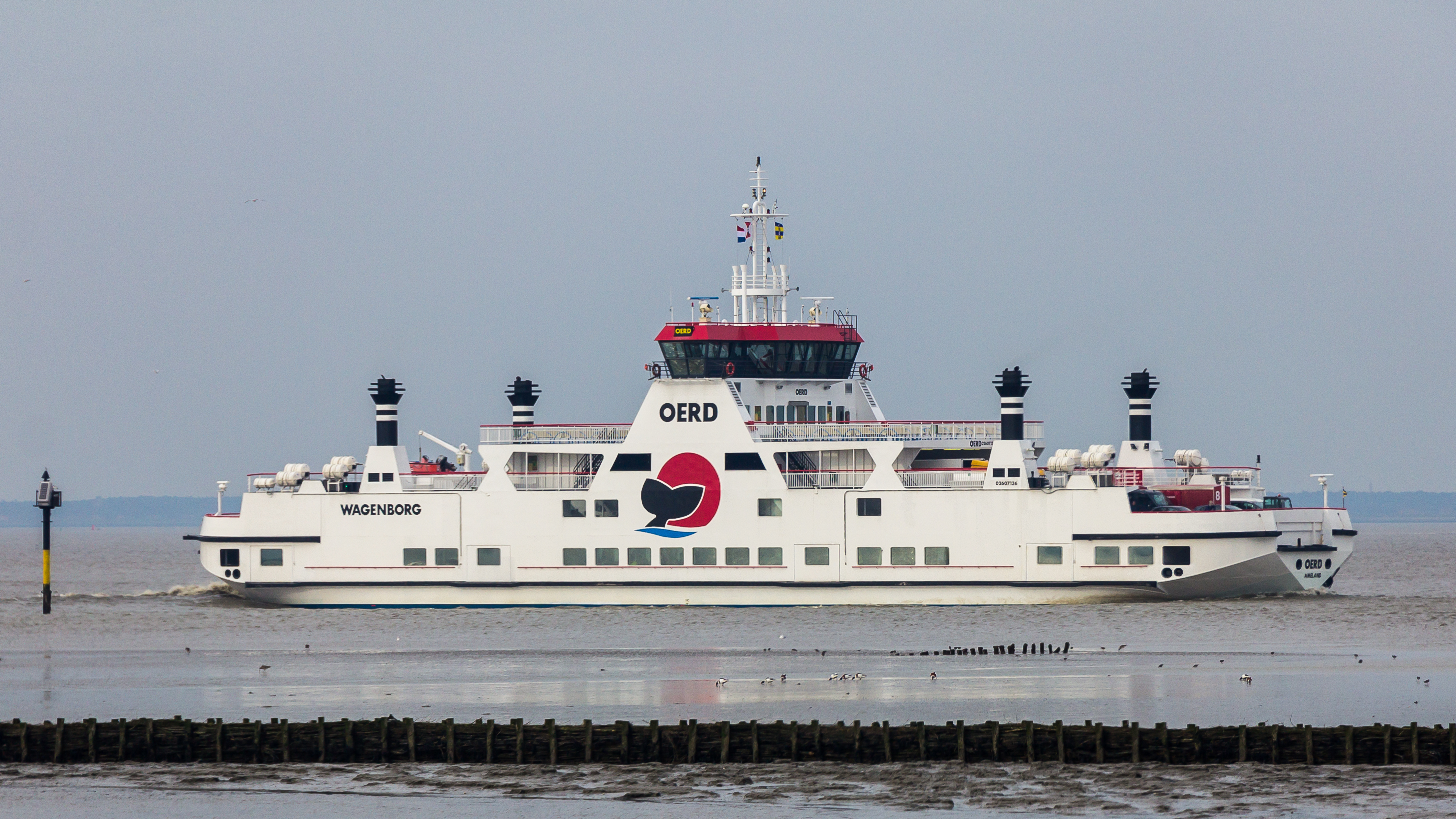 Ferry ship Oerd (ENI 02607136, IMO 9269673) near ferry terminal Holwerd